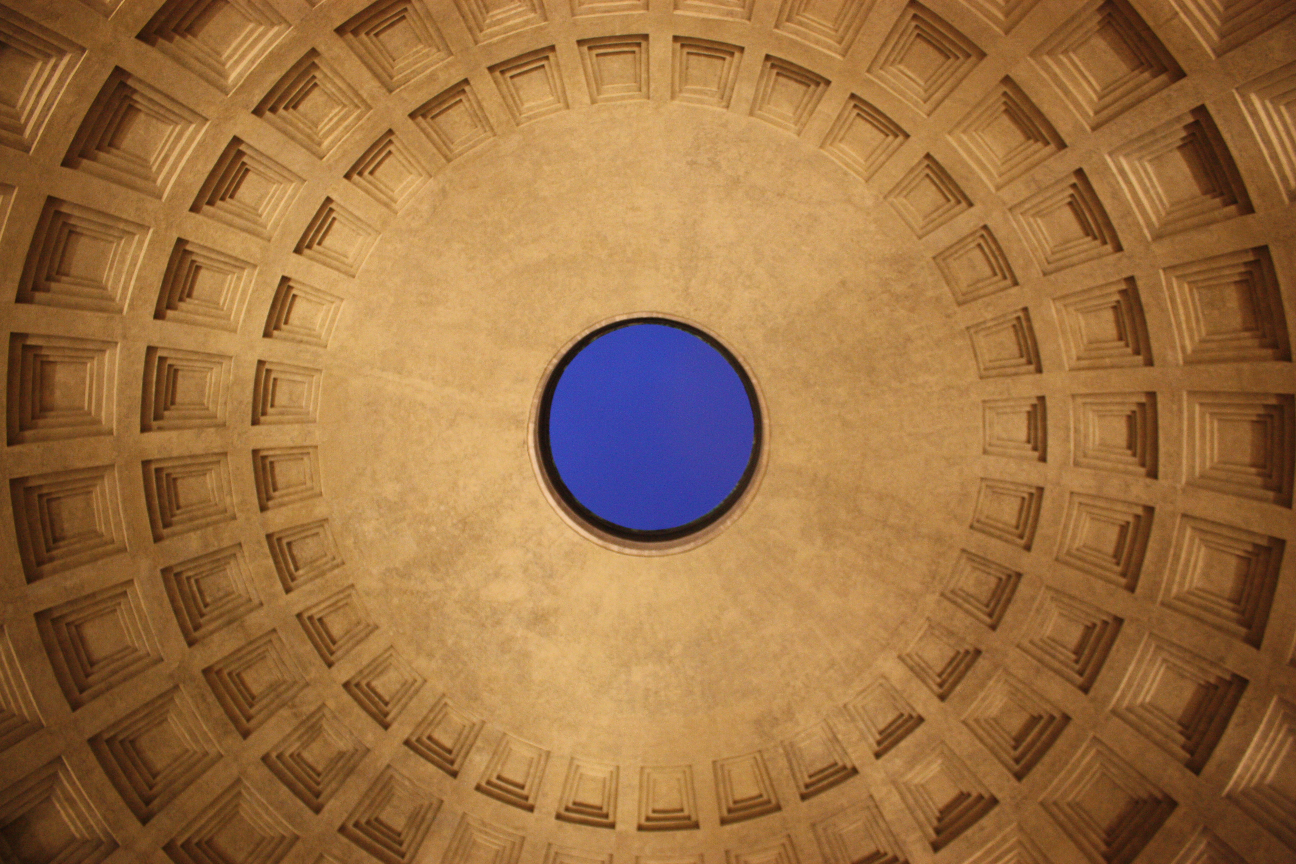 Pantheon below the dome.